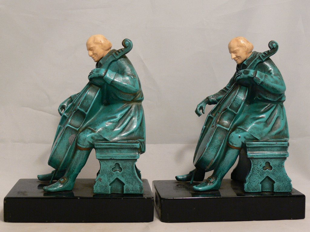 Bookends sculptored by my grandfather